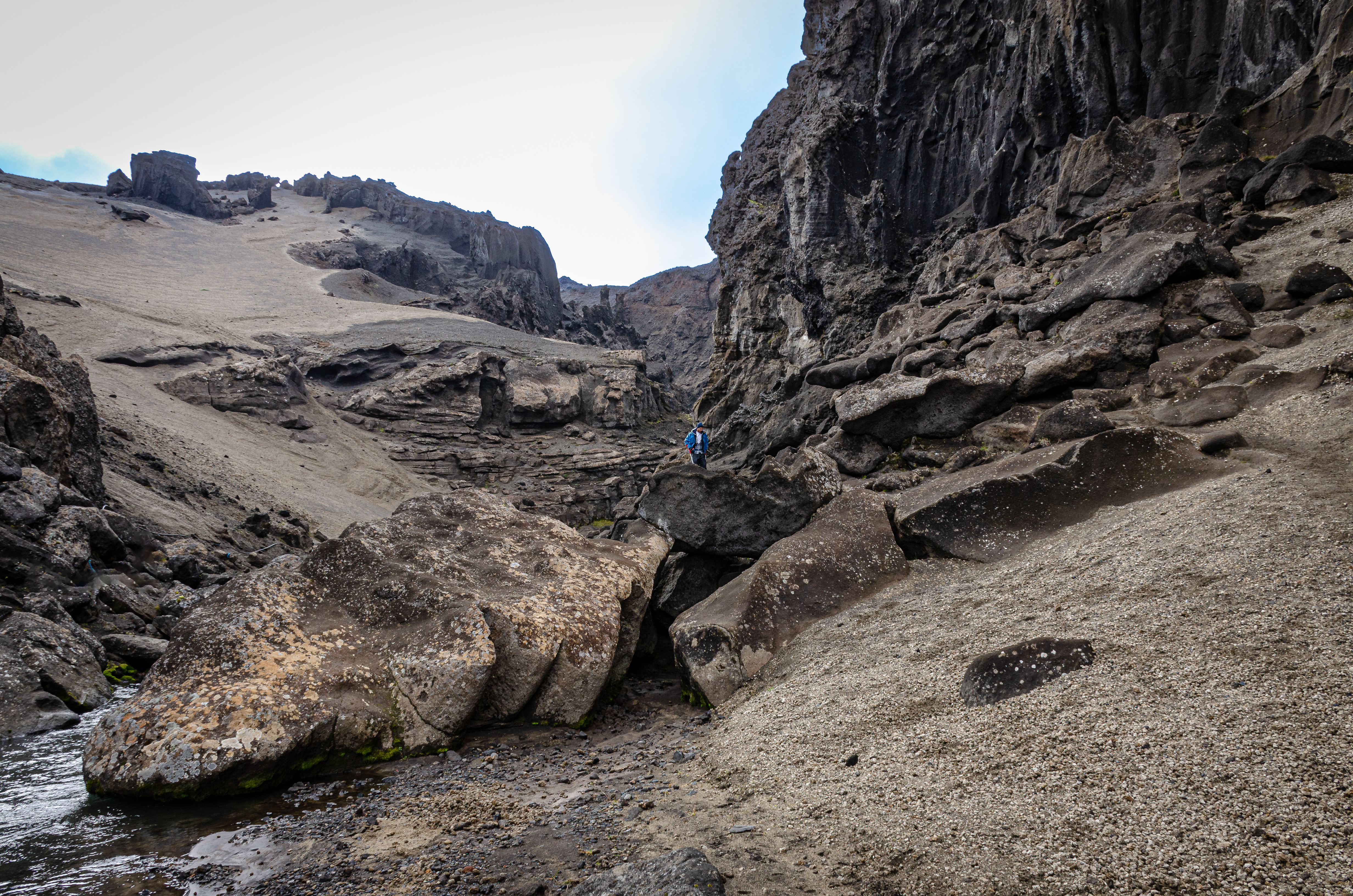 Dragon canyon (Drekagil), Askja region, Iceland